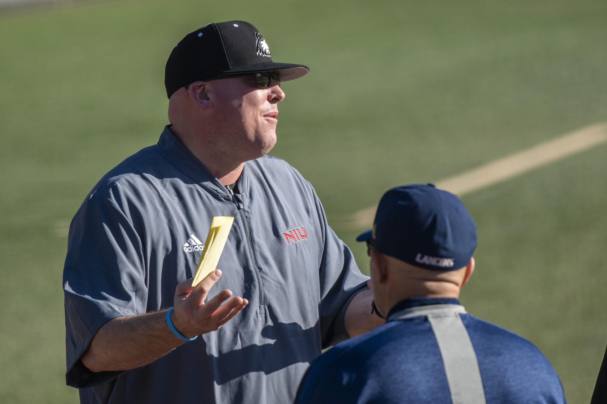 Mike Kunigonis at a plate meeting with umpires before a game against California Baptist in Riverside, CA on 2/15/19